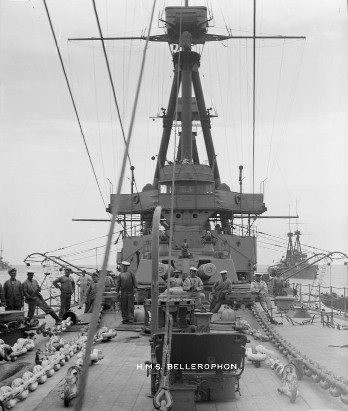 Battleships of the Royal Navy Pre-1914 HMS Bellerophon battleship, Deck scene.